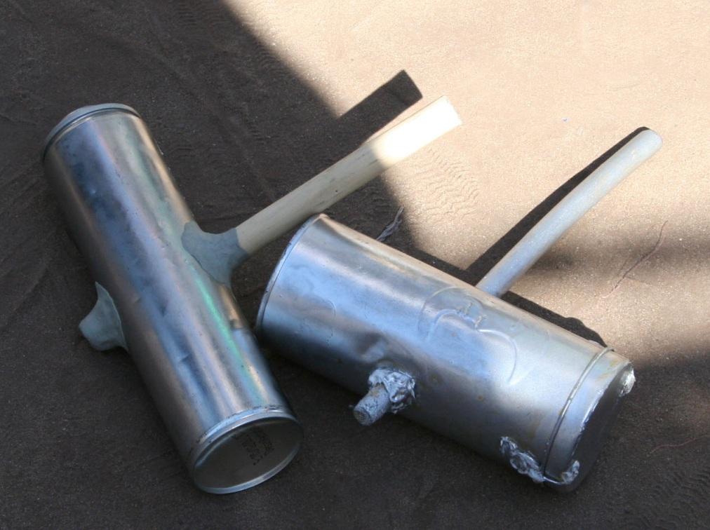 Masacallas made of empty aerosol, belonging to the "Comparsa Negros Argentinos" of Misibamba Association. Afro-Argentine community in Buenos Aires (Pablo Cirio, Merlo, 2008).